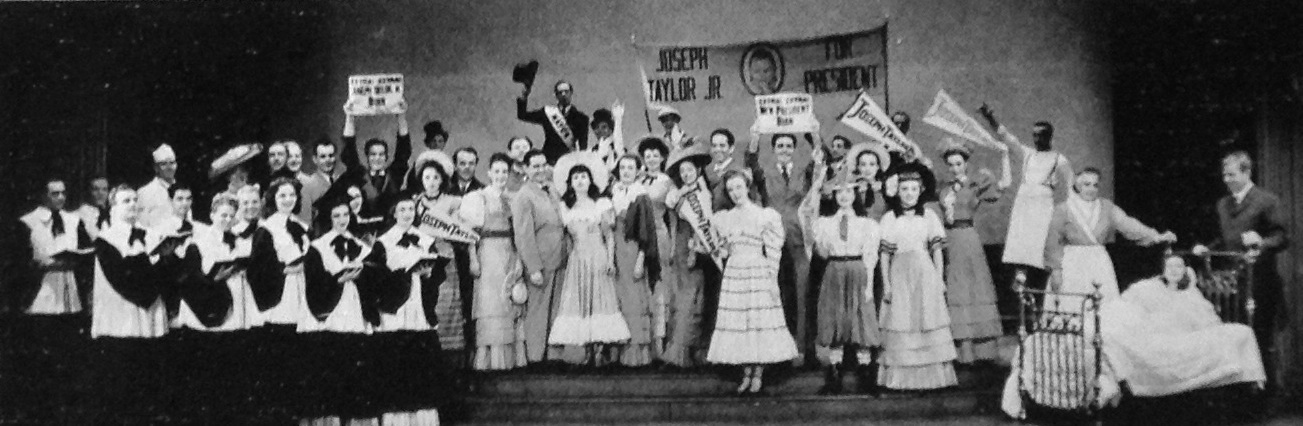 The townsfolk assemble in Act I of Allegro to congratulate Joseph Taylor, Jr.'s family (to right) on his birth and to predict great things for him.